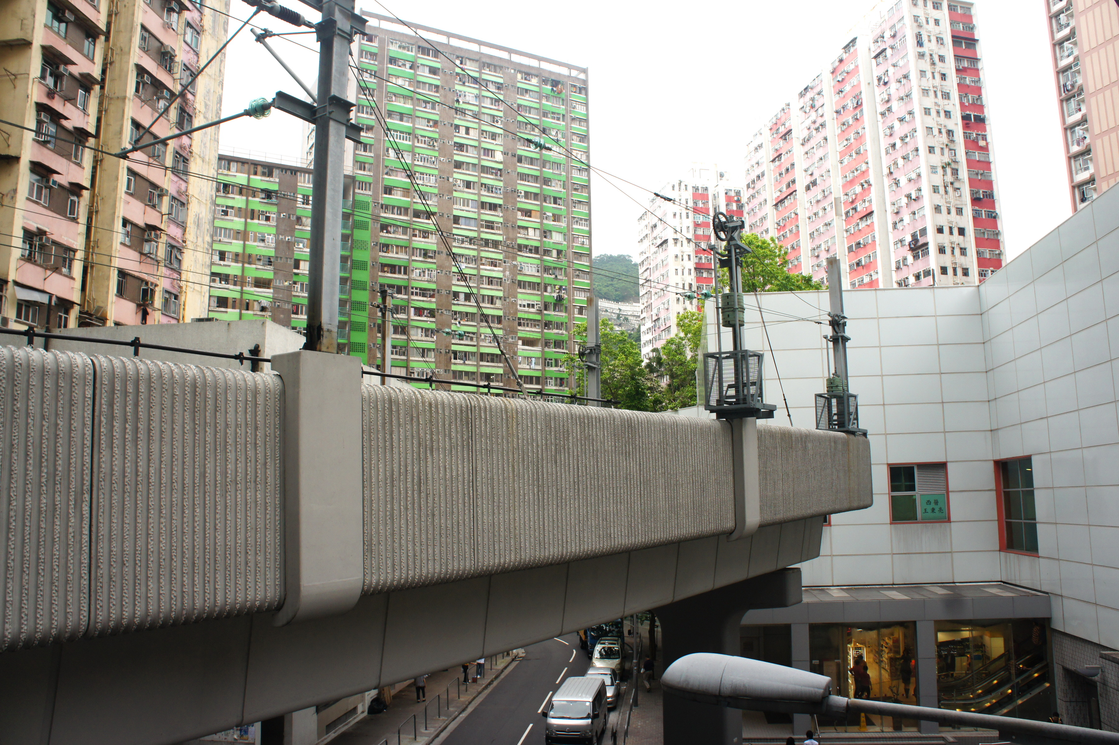 The end of the line at Chai Wan Station, Hong Kong.